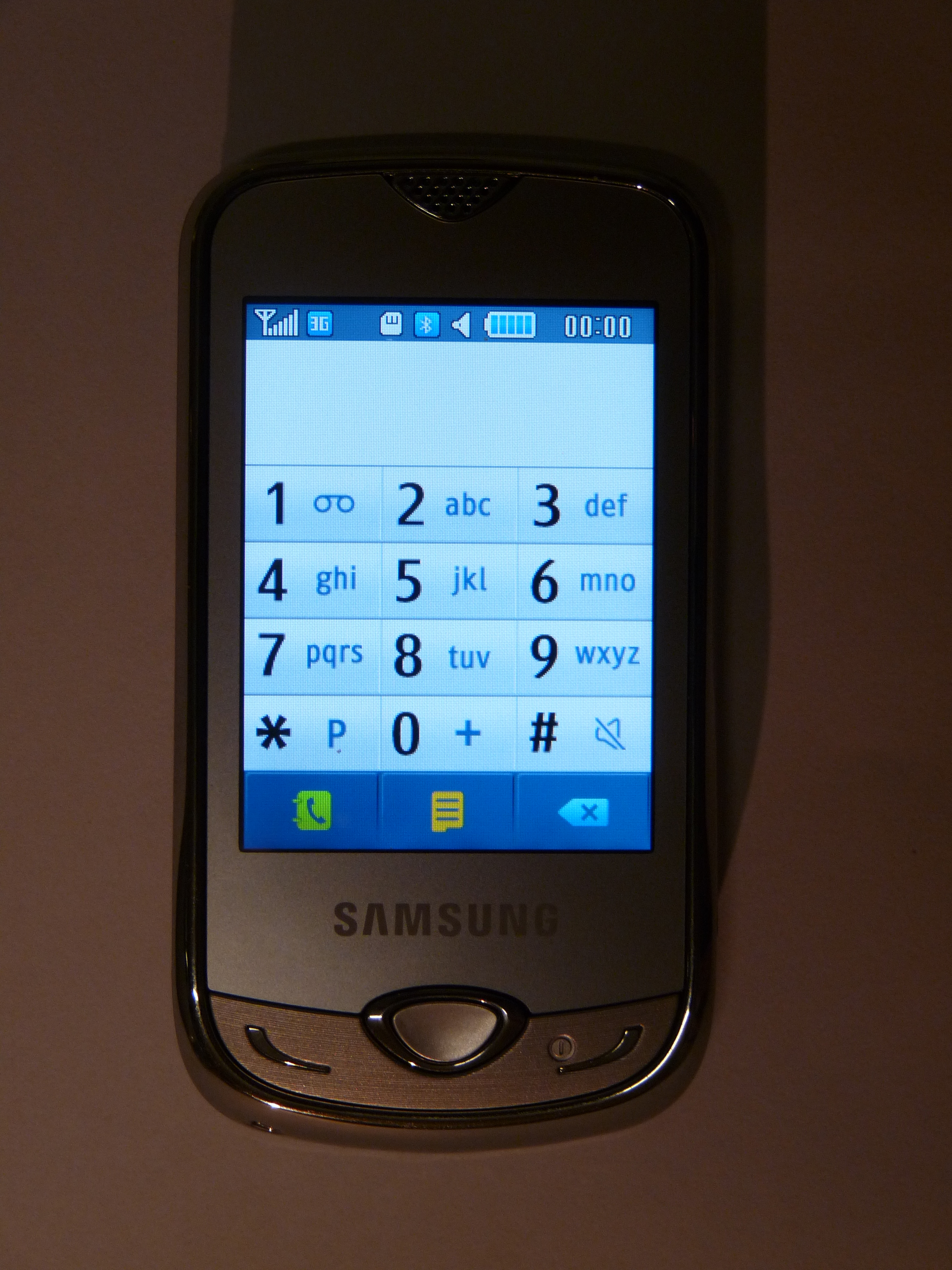 Samsung GT-S3370. Camera leaves much to be desired, USB cable is missing in standart packing and battery lasts only 2 days. But handsfree is attached to the packing and pick in menu is unusual.